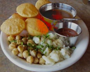 A plate of wp:Panipuri